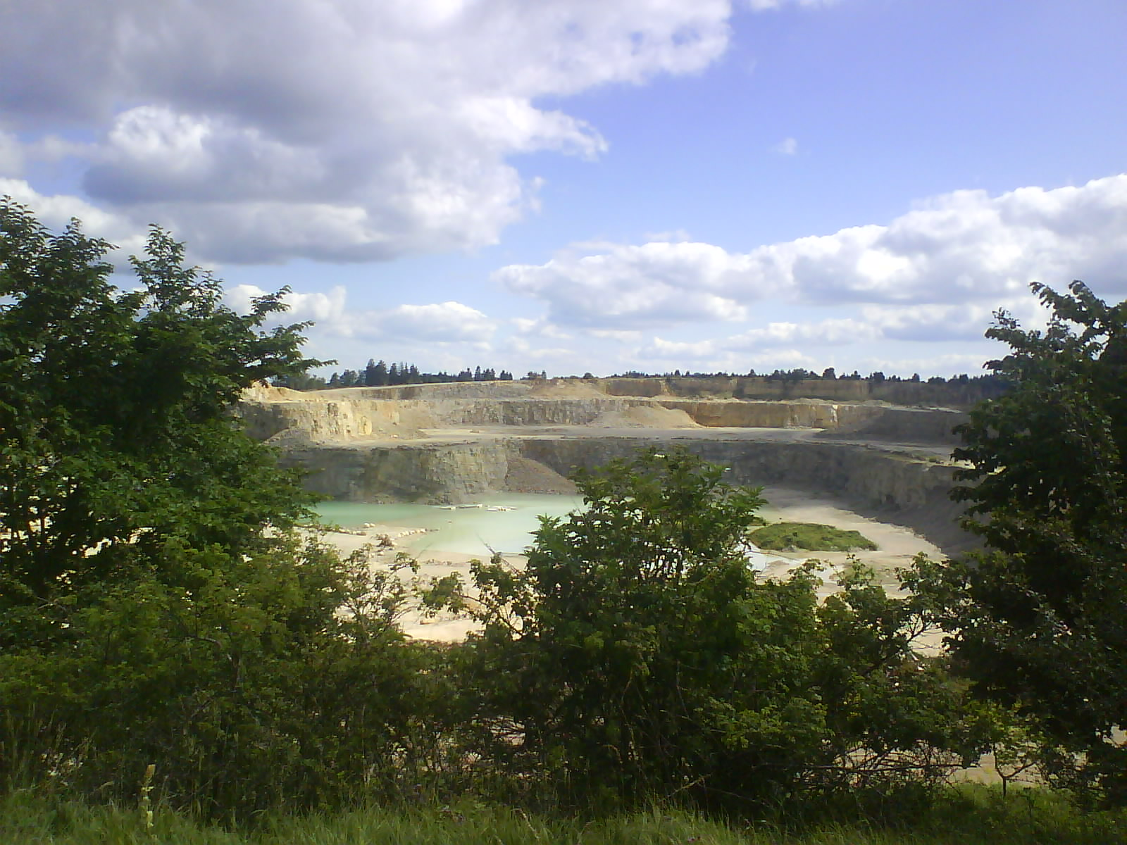 The picture shows the quarry of the Plettenberg with a little quarry pond within it.